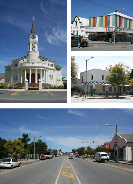 A collection of images from Porterville, Western Cape, South Africa. Top left: main church. Top right: A 'China Shop' located in the town. Left center: Historic town house on the main street. Bottom: A view of the town's main road.